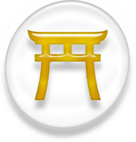 Symbol of Shintoism, white and golden version.